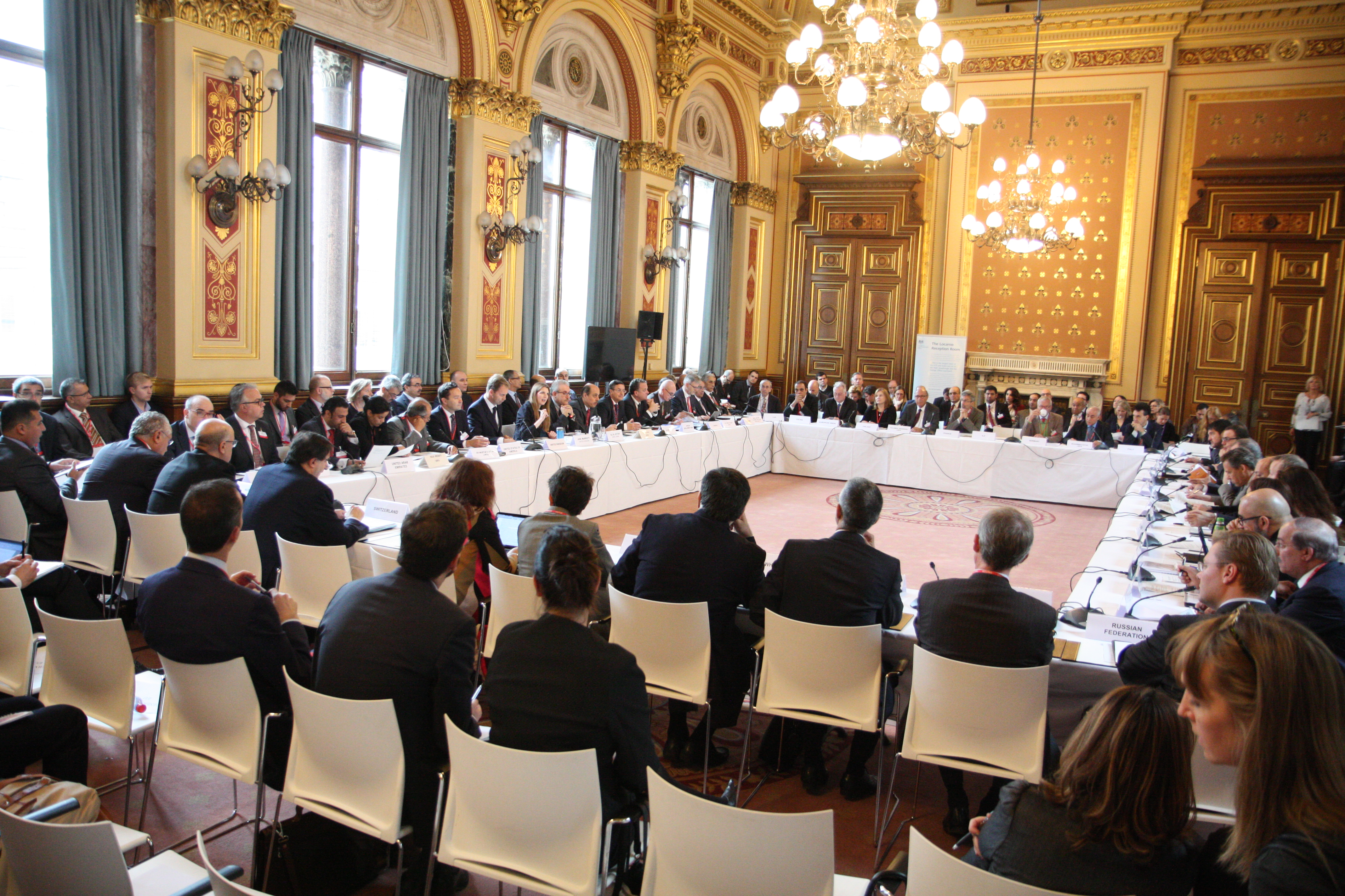 Representatives of 40 countries, UN Agencies, and international bodies, as well as a number of independent Libyan experts, met in London on 19 October 2015 at a meeting co-hosted by the UK and UN Support Mission in Libya (UNSMIL) to agree the most effective way to support a new Libyan Government of National Accord (GNA). Read more